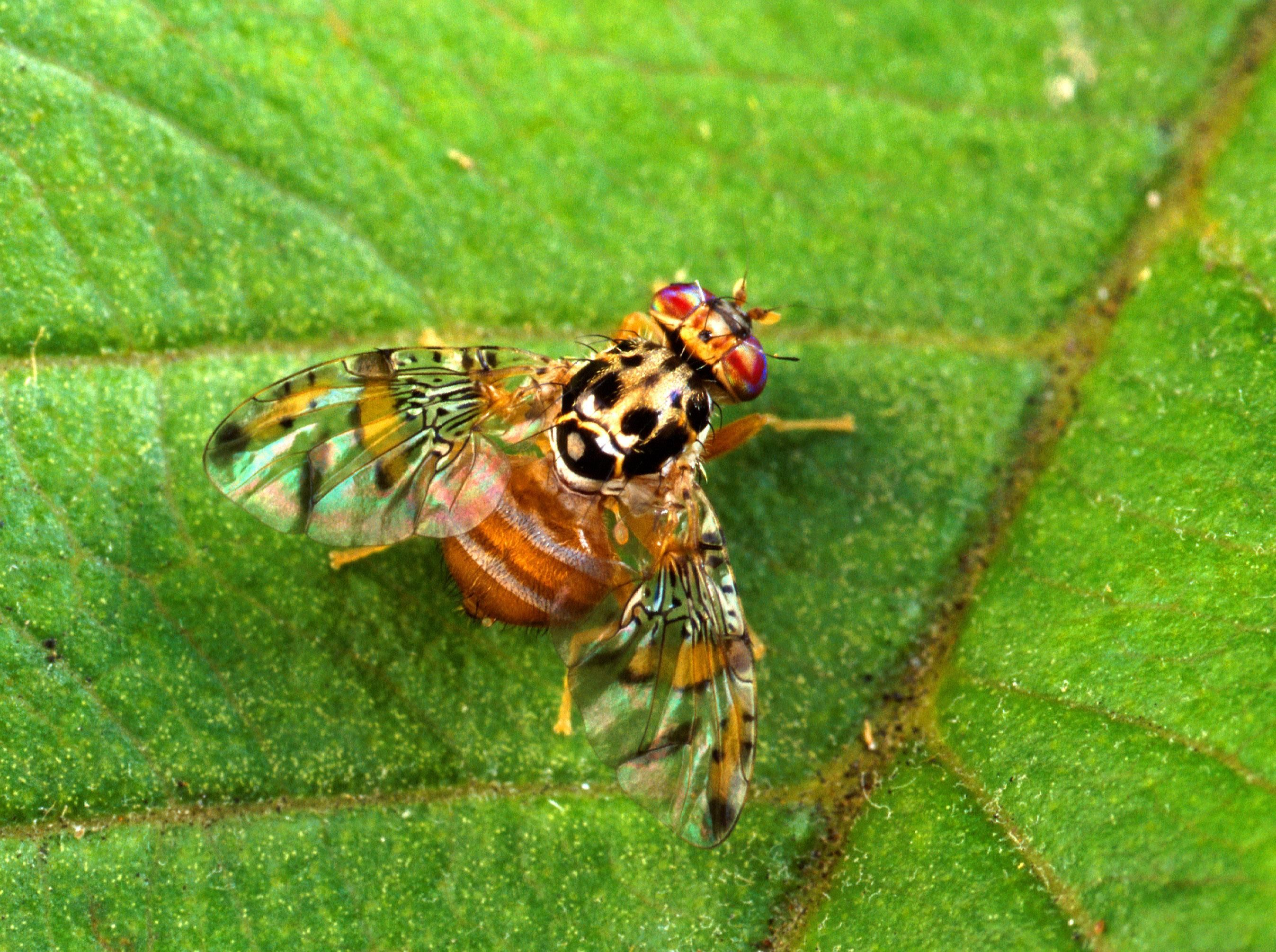 Image title: Medfly insect Image from Public domain images website